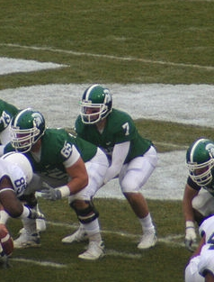 Brian Hoyer behind center